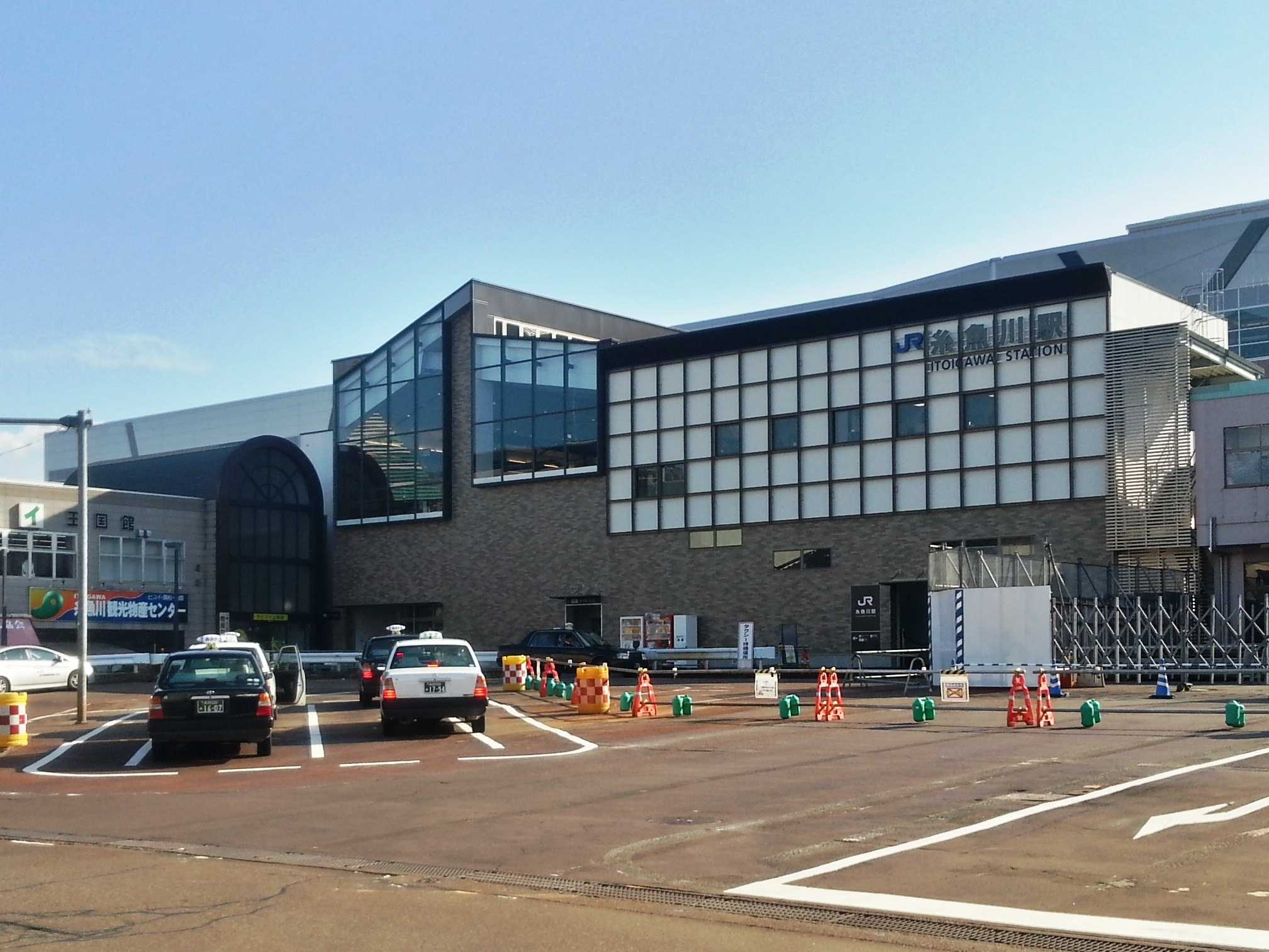 The newly opened Itoigawa Station building (opened 1 December 2013)